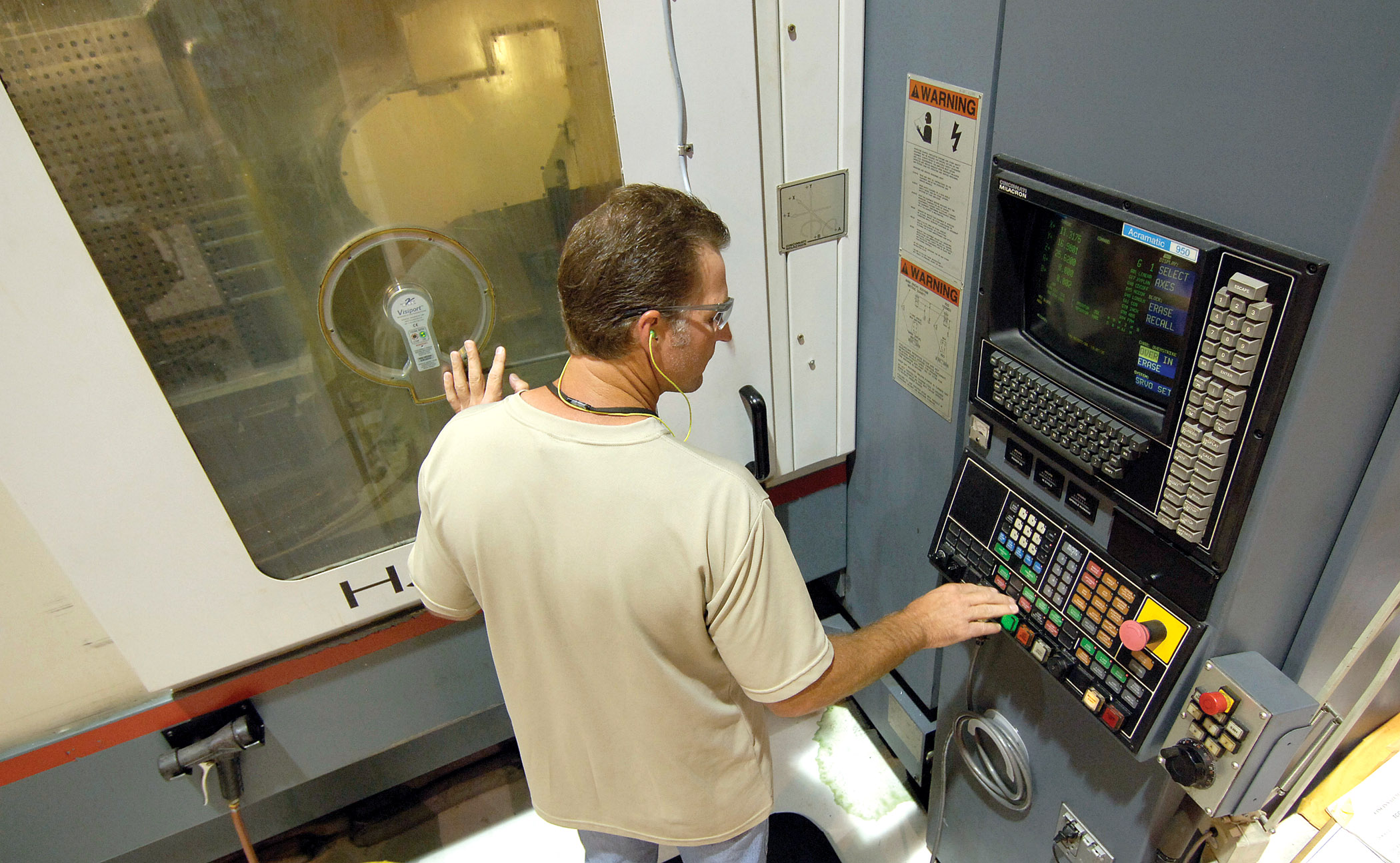 Paul Spurlock monitors a B-1B Lancer part being manufactured Oct. 2 at Tinker Air Force Base, Okla. Mr. Spurlock is a numerical controlled machining cell machinist.